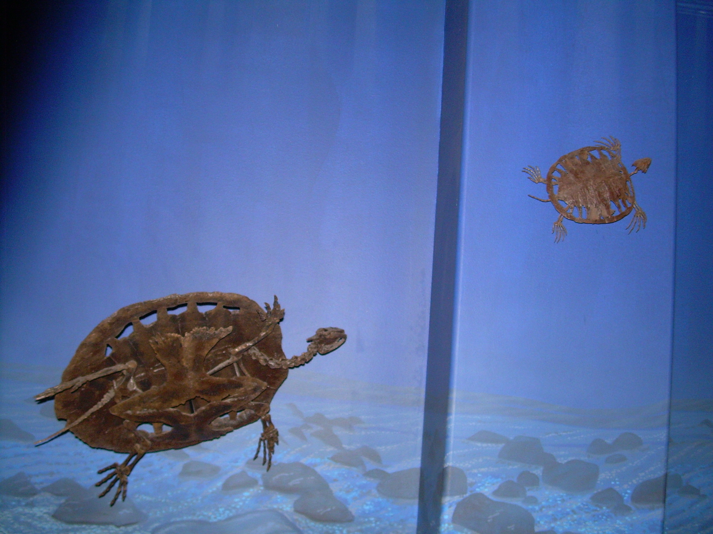 Photograph of casts of two Ctenochelys stenoporus (syn. Toxochelys bauri) skeletons taken at the North American Museum of Ancient Life.